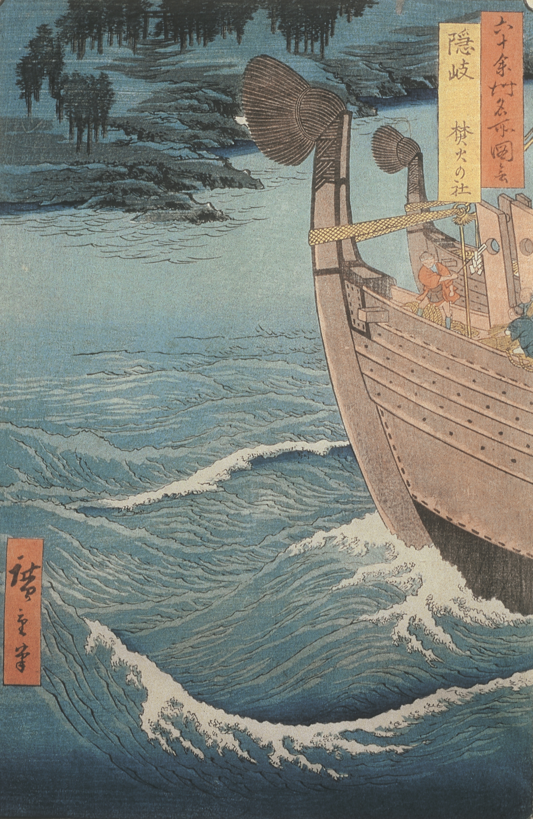 Oki Takuhinoyashiro of the Famous Scenes of the Sixty States.